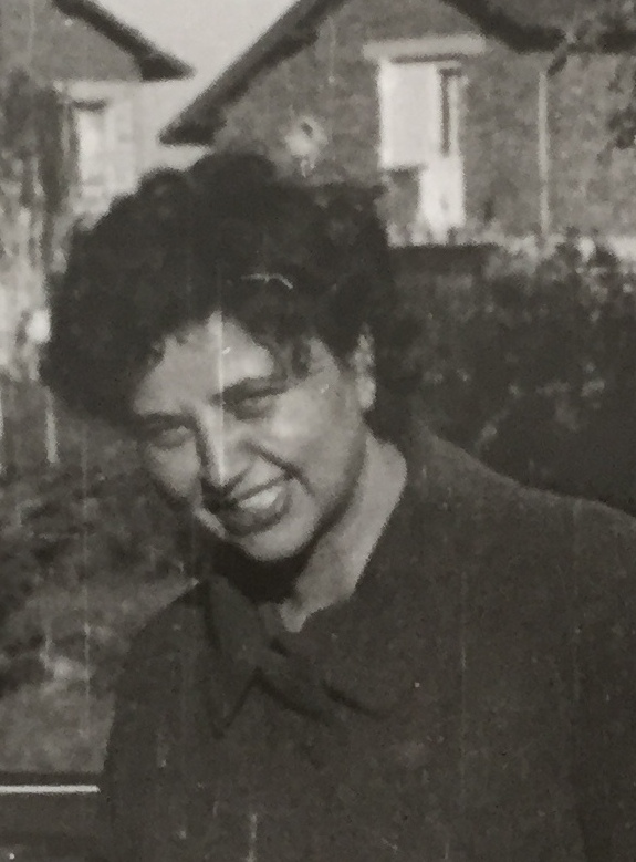 Bulgarian anti-Nazi fighter and politician Elena Lagadinova